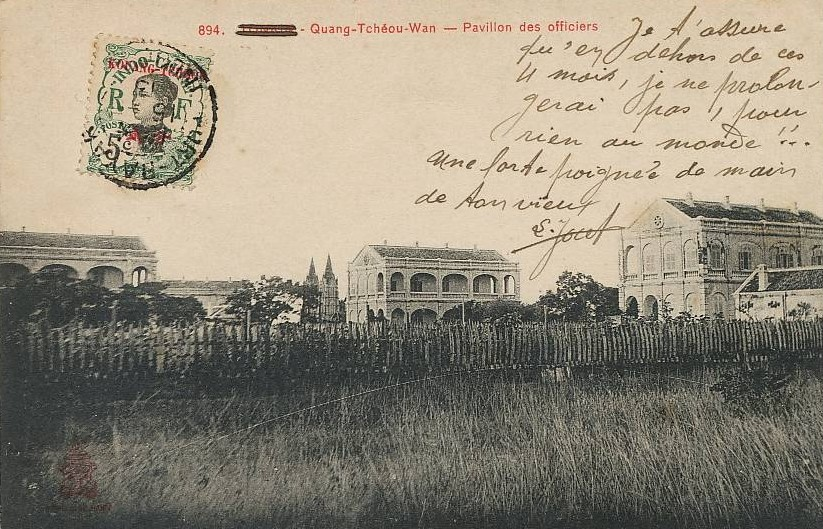 Partial view of Fort Bayard with officers quarters in foreground. French leased territory of Kwangchowan. Postcard mailed in 1913.